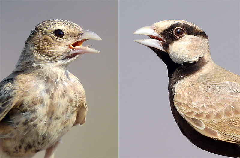 Female♀ Male ♂ Ashy-crowned Sparrow-Lark (Eremopterix griseus) Photograph by Shantanu Kuveskar. Location : Mangaon, Raigad, Maharashtra, India